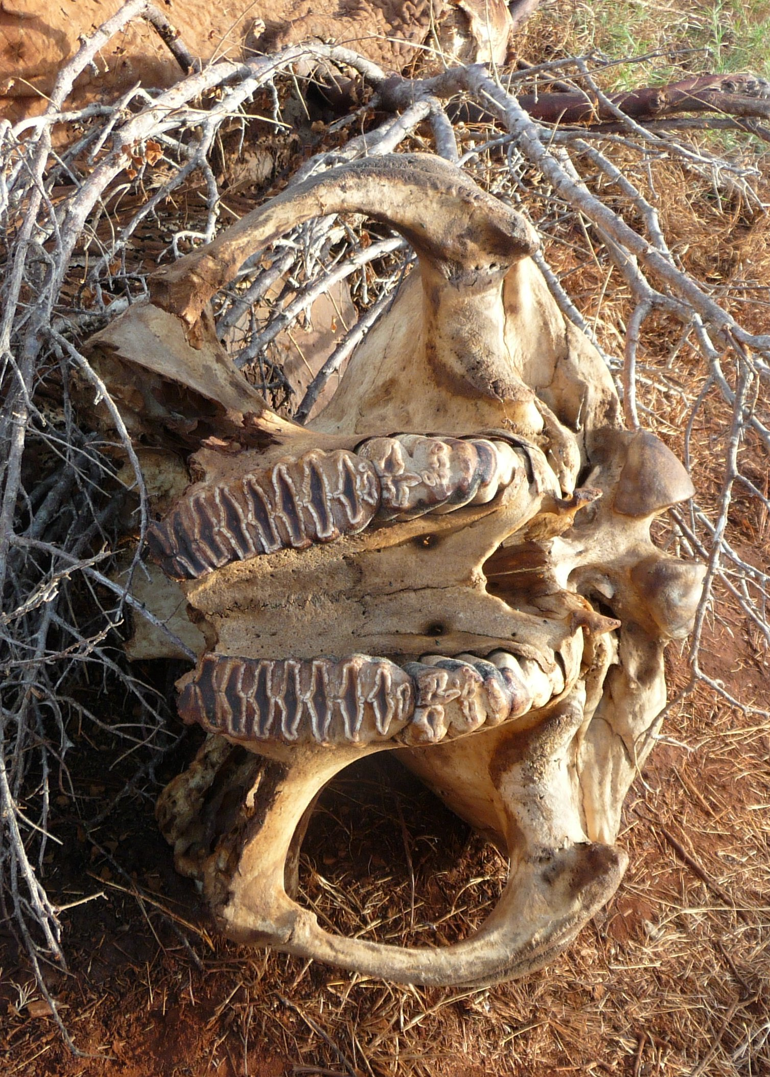 Elephant head with removed tusks Elephant killed By poachers, Voi area, Kenya